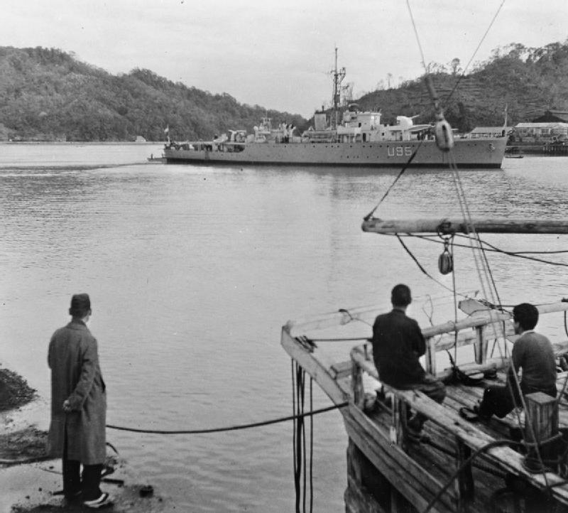 IWM caption : HMIS SUTLEJ, the first Allied warship to reach the former Japanese naval base at Kure, lies in the harbour at Kuchi, Shikoku Island, after negotiating the difficult shallow waters.